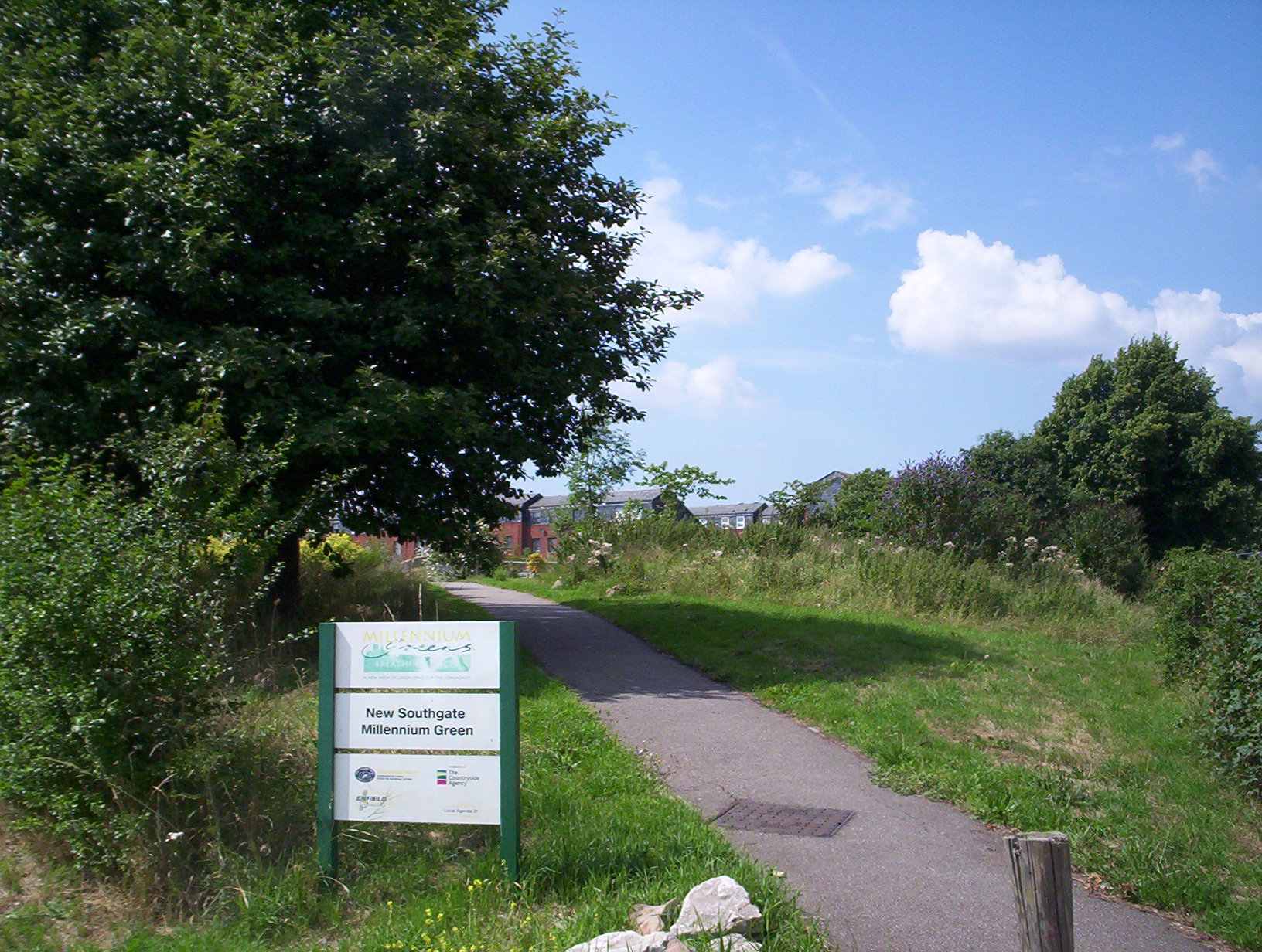 New Southgate Millennium Green volunteer photographer. London UK